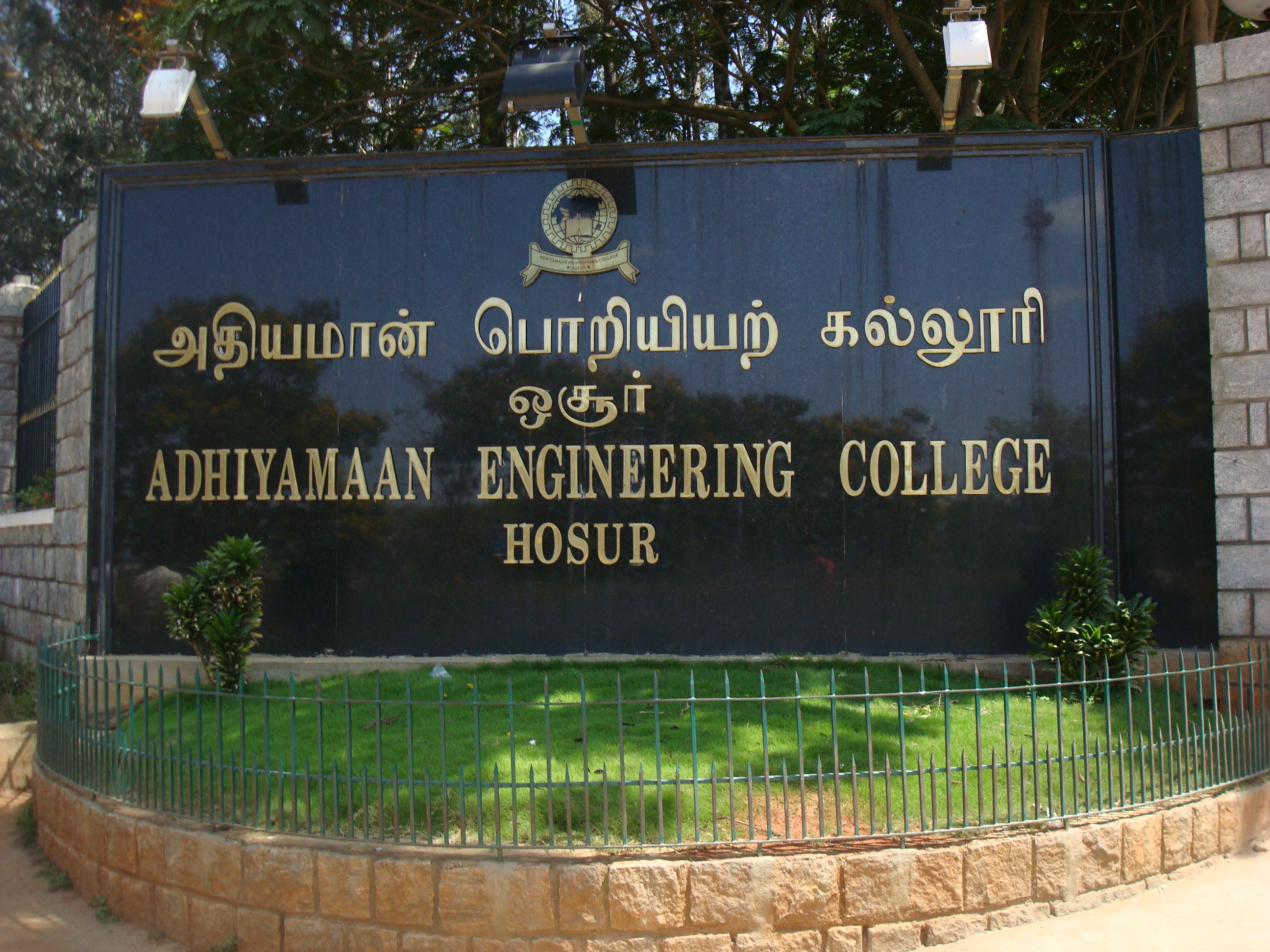 Stone Title of ACE at Entrance.